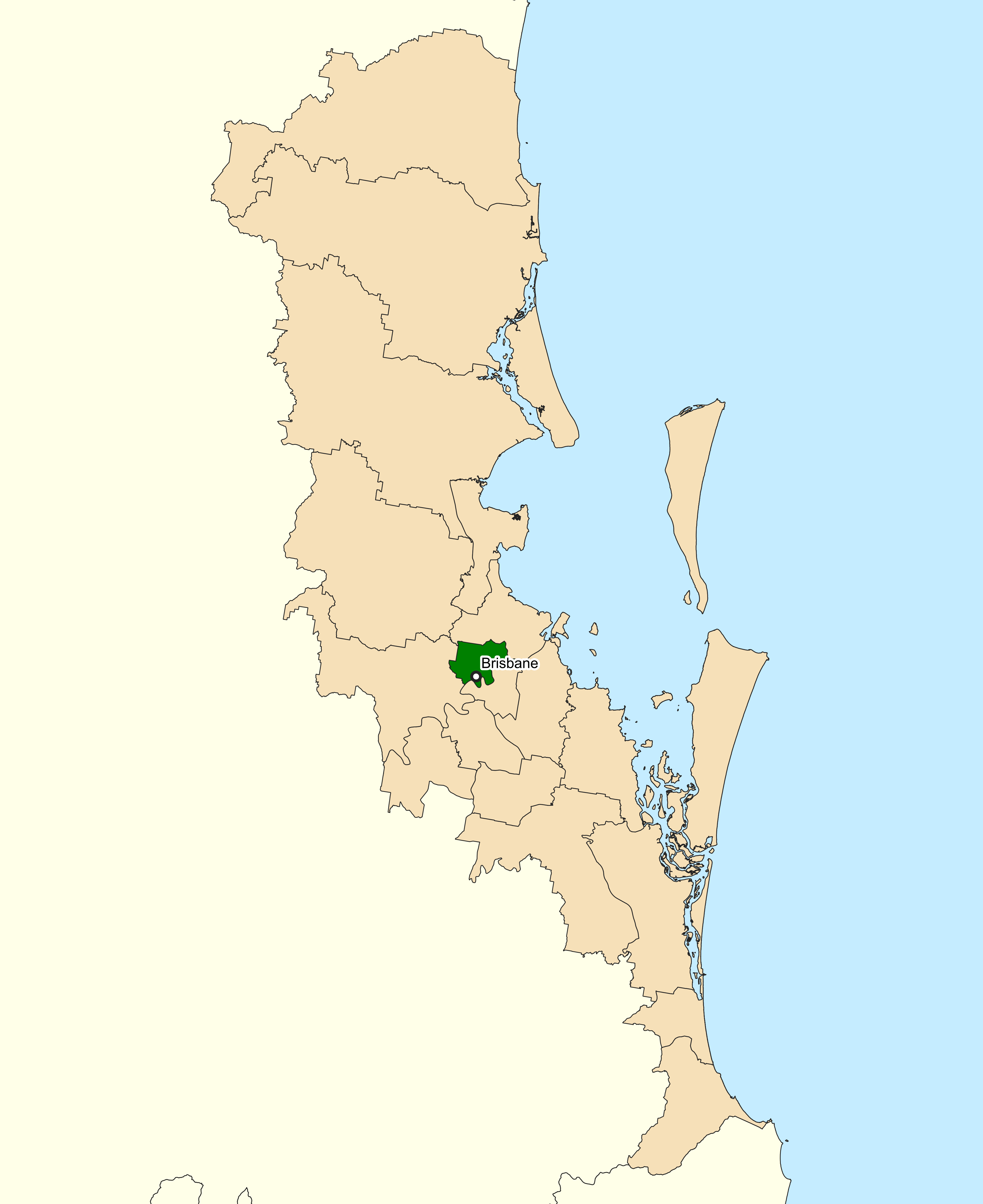 Location of the Australian federal electoral division of Brisbane (dark green) in Greater Brisbane, Queensland as of the 2019 Australian federal election. Incorporates or developed using Administrative Boundaries ©PSMA Australia Limited licensed by the Commonwealth of Australia under Creative Commons Attribution 4.0 International licence (CC BY 4.0).